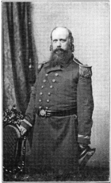 Photograph of Captain Robert Townsend, commander of the American frigate USS Wachusett from 1864 to his death in 1866.